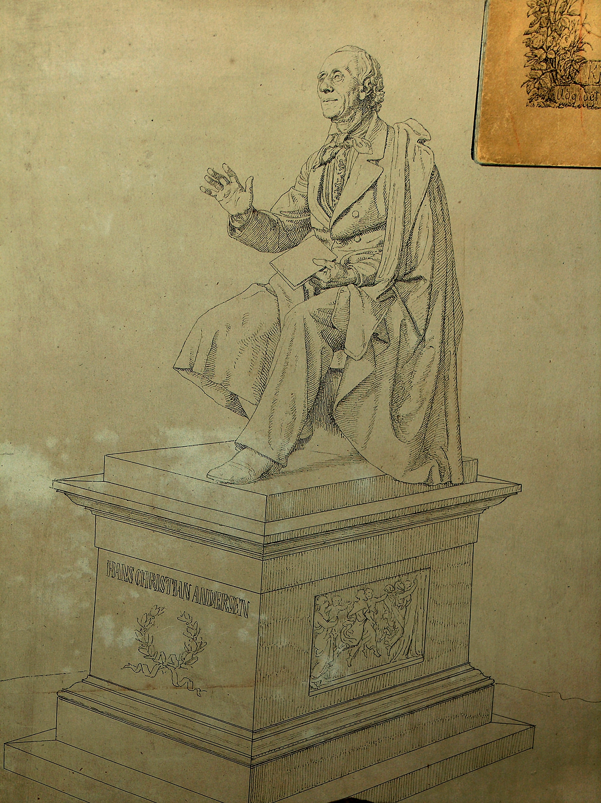 A sketch for the Hans Christian Andersen monument in Tosenborg Gardens in Copenhagen, Denmark